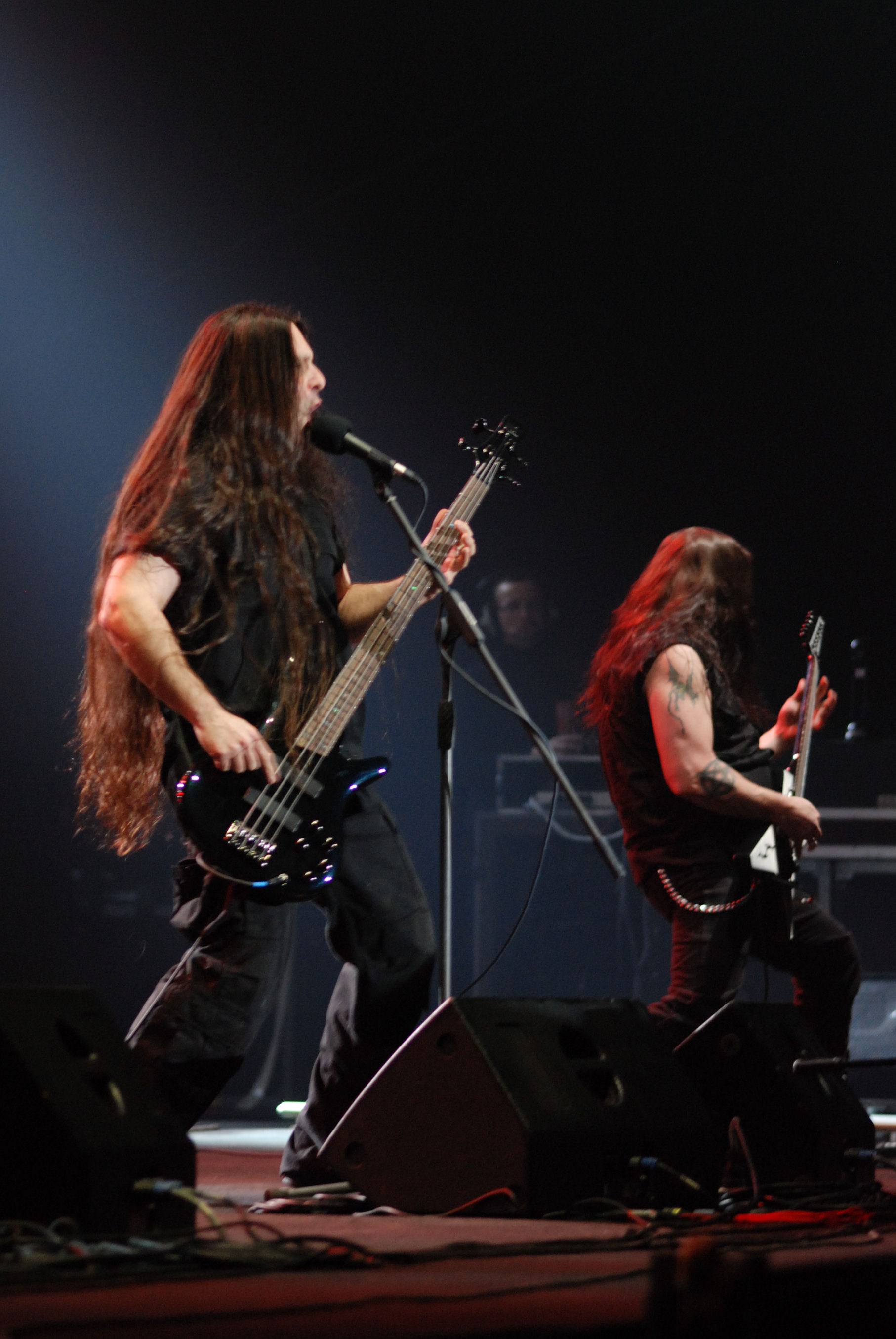 Immolation during Metalmania 2008 festival